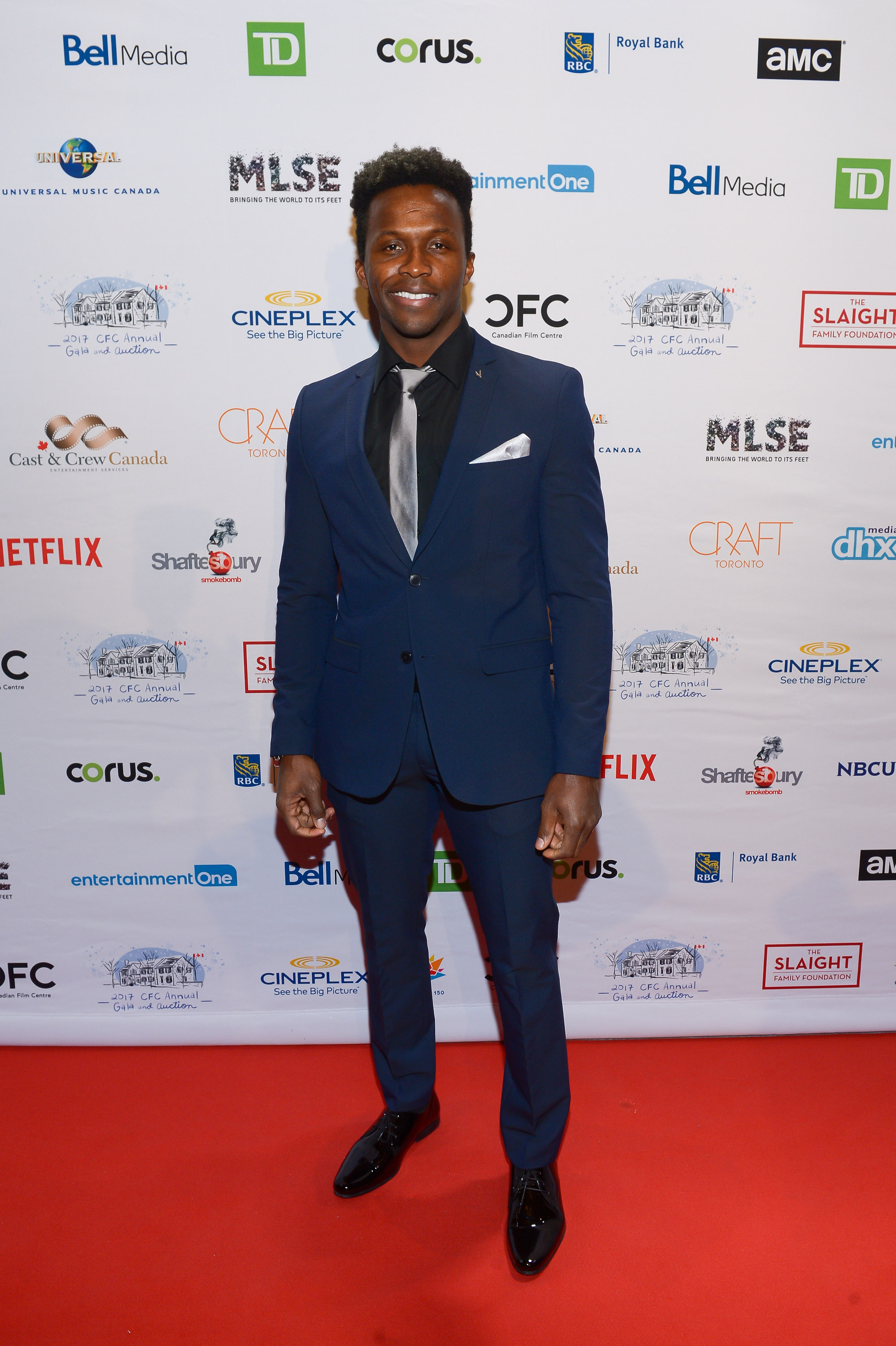 Emmanuel Kabongo, CFC Actors Conservatory alumnus. Photo: Sam Santos / George Pimentel Photography.